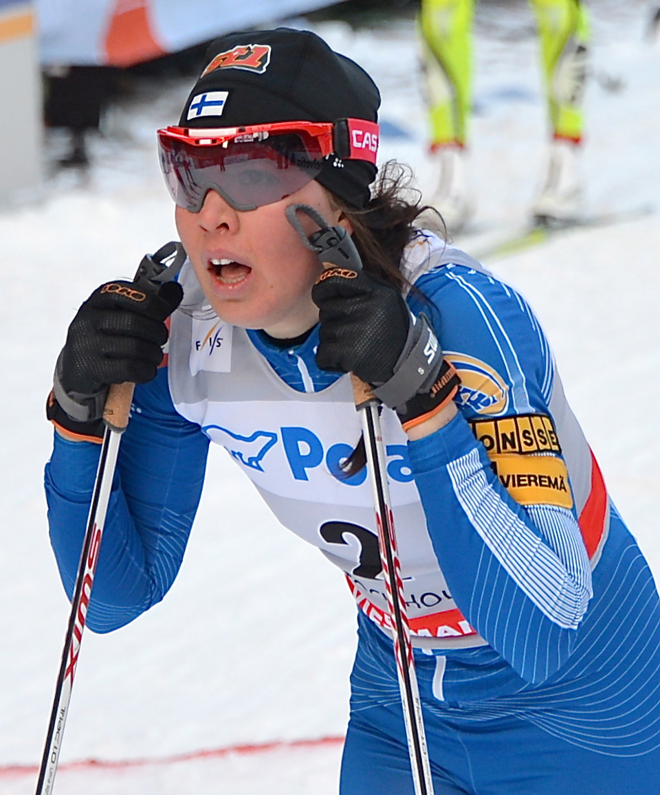 Kerttu Niskanen at Royal Palace Sprint in Stockholm March 20, 2013